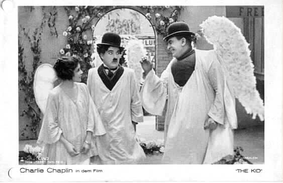 Film still from The Kid (1921) of Charles Chaplin for Charles Chaplin Productions